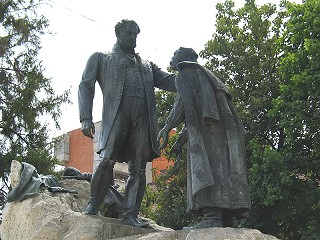 Wesselényi Monument in Zalău by János Fadrusz, depicting Miklós Wesselényi